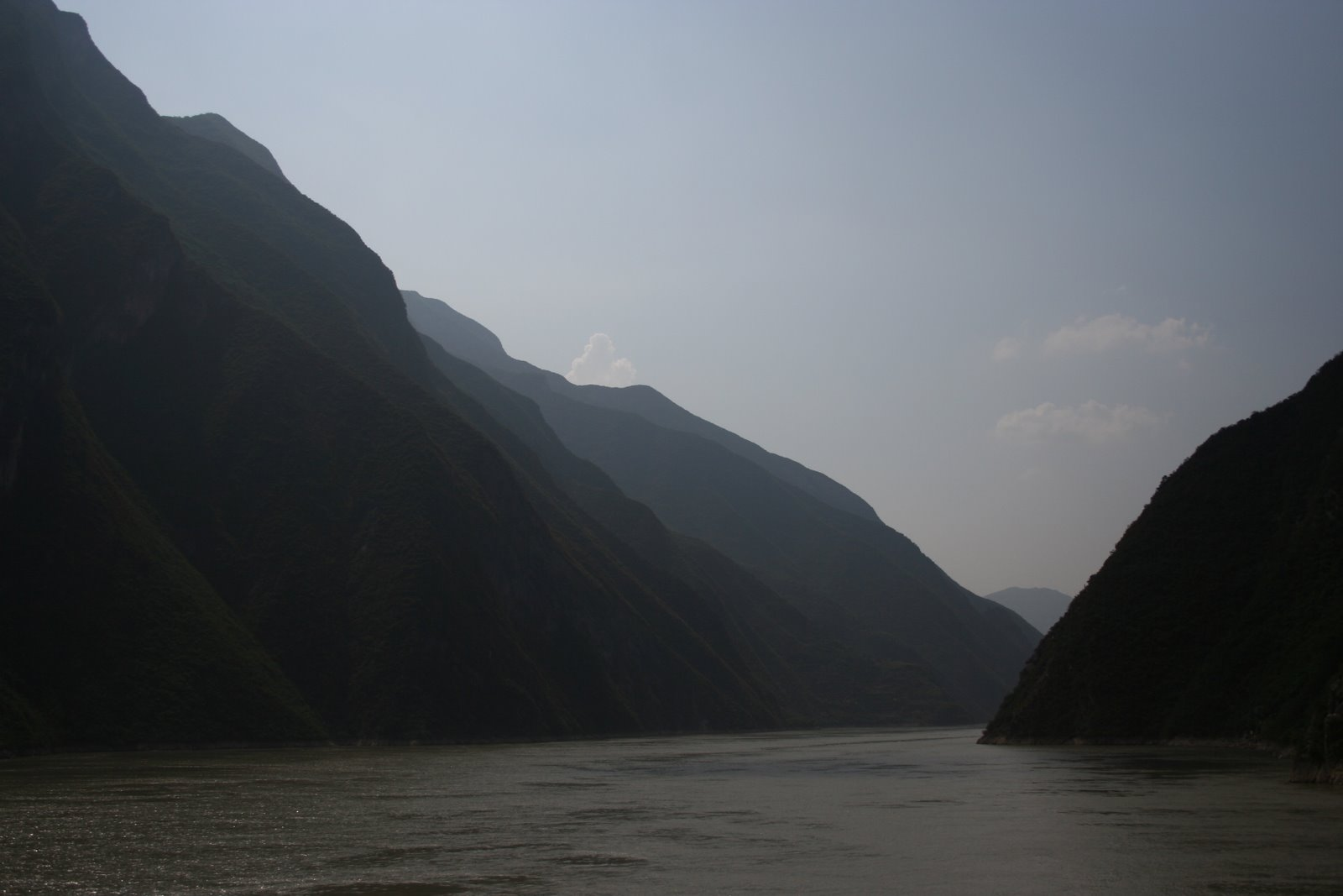 Yangtze River, picture taken from the cruise boat